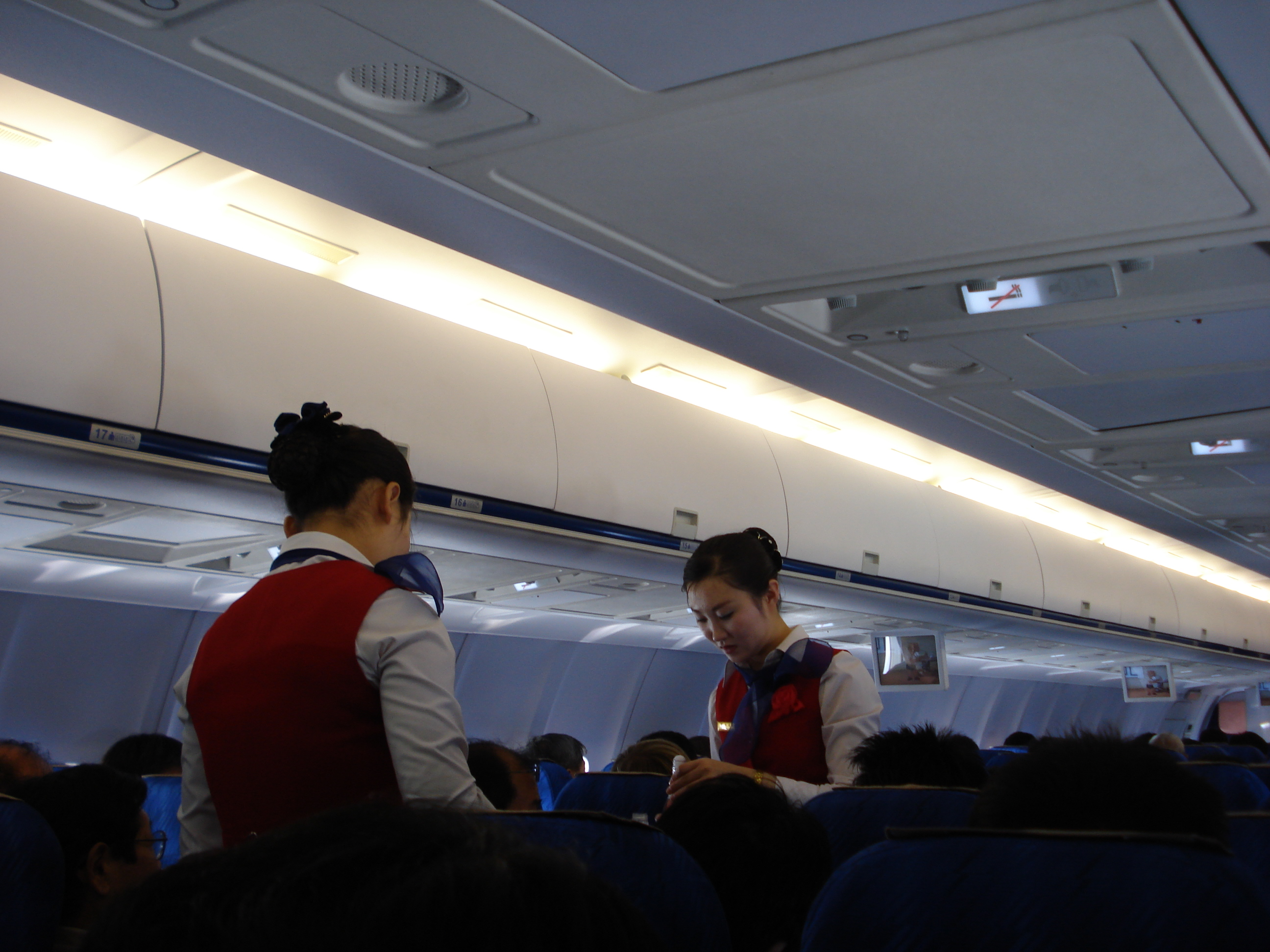 Air Koryo Tu-204 cabin with LCD screens